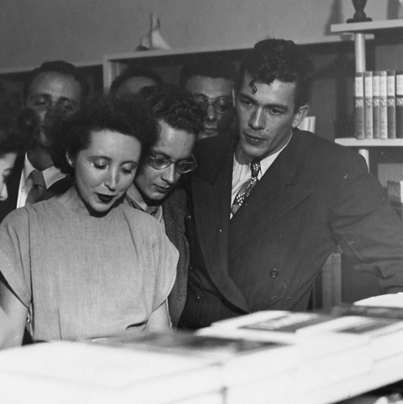 Many authors and artists were featured in shows and signings put on by George Leite at daliel's bookstore and gallery in Berkeley, CA, from 1945 to 1952, including Anaïs Nin, Henry Miller, Jean Varda, Harry Partch, Bezalel Schatz, and others. This photo shows Leite and Nin during one such event. Other information I am posting all photos relevant to my father's career as author, publisher, and bookstore owner from 1945-1952 in Berkeley, CA. All photos were taken by him or for him, were entirely his property, and I am his sole heir.